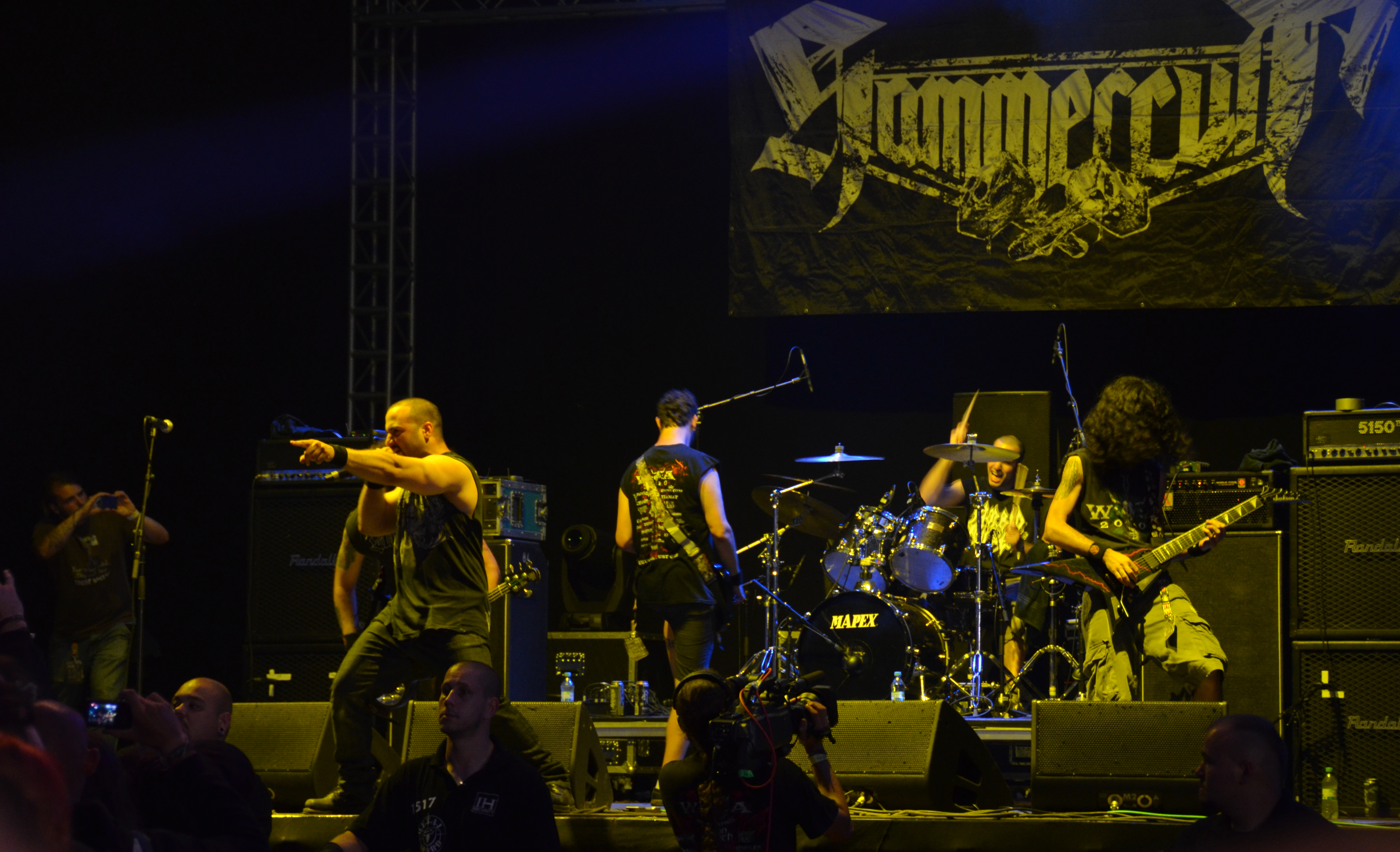 Hammercult at Wacken Open Air 2012